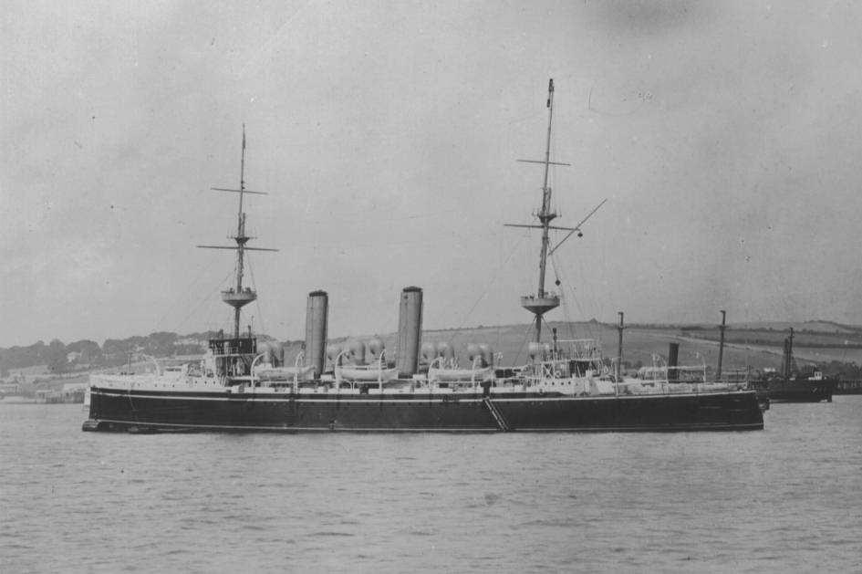 Photograph of British cruiser HMS Juno.